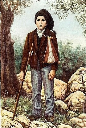 Francisco Marto, one of the three children whom the Virgin Mary revelead the famous "three secrets".